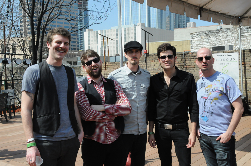 The Queen Killing Kings with interviewer Derek Nicoletto (far right) at SXSW 2009